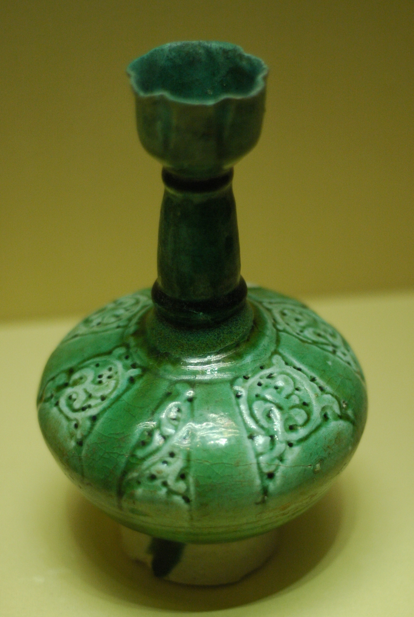 Bottle.